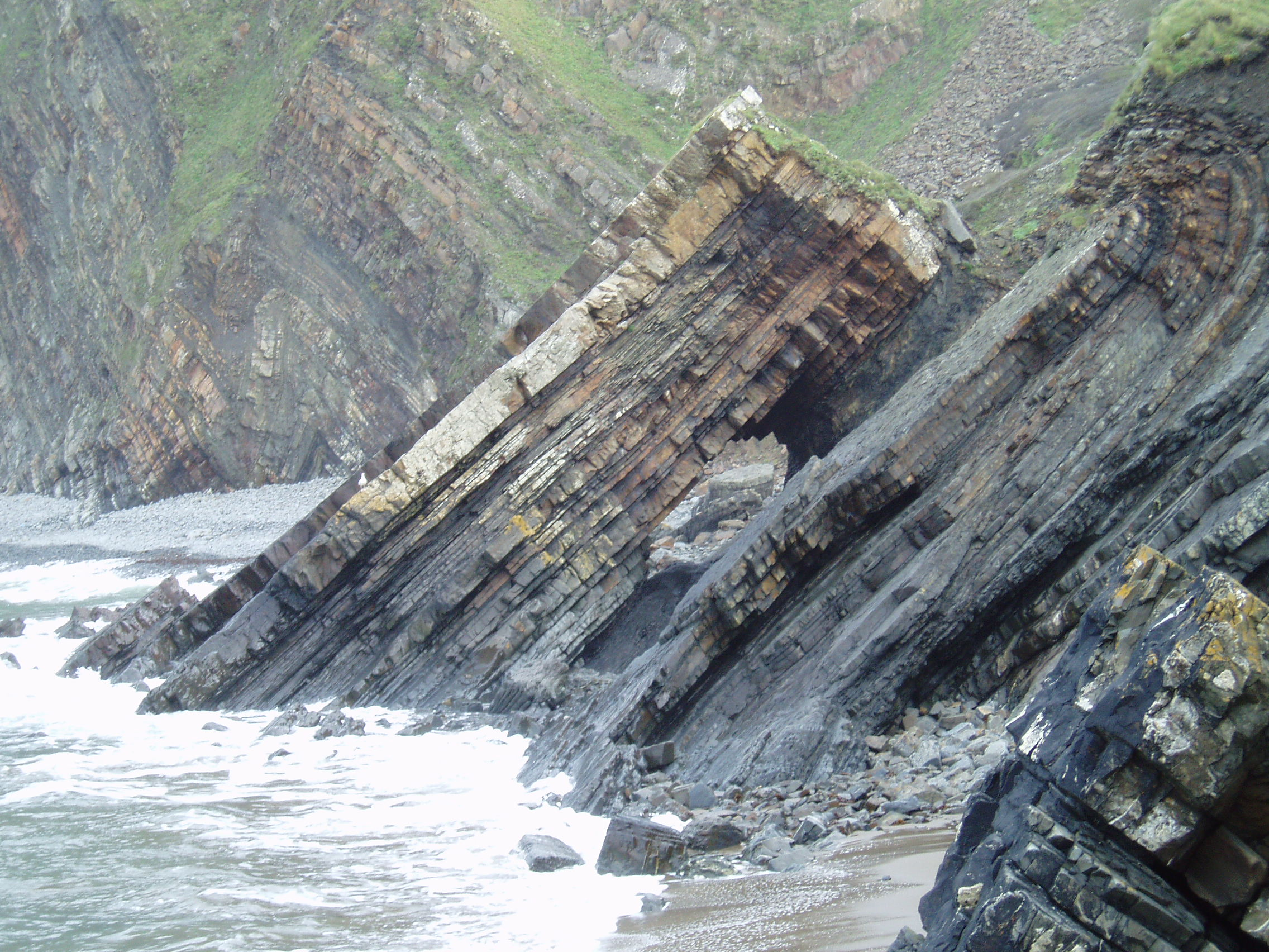 Rocks at Hartland Point, Devon